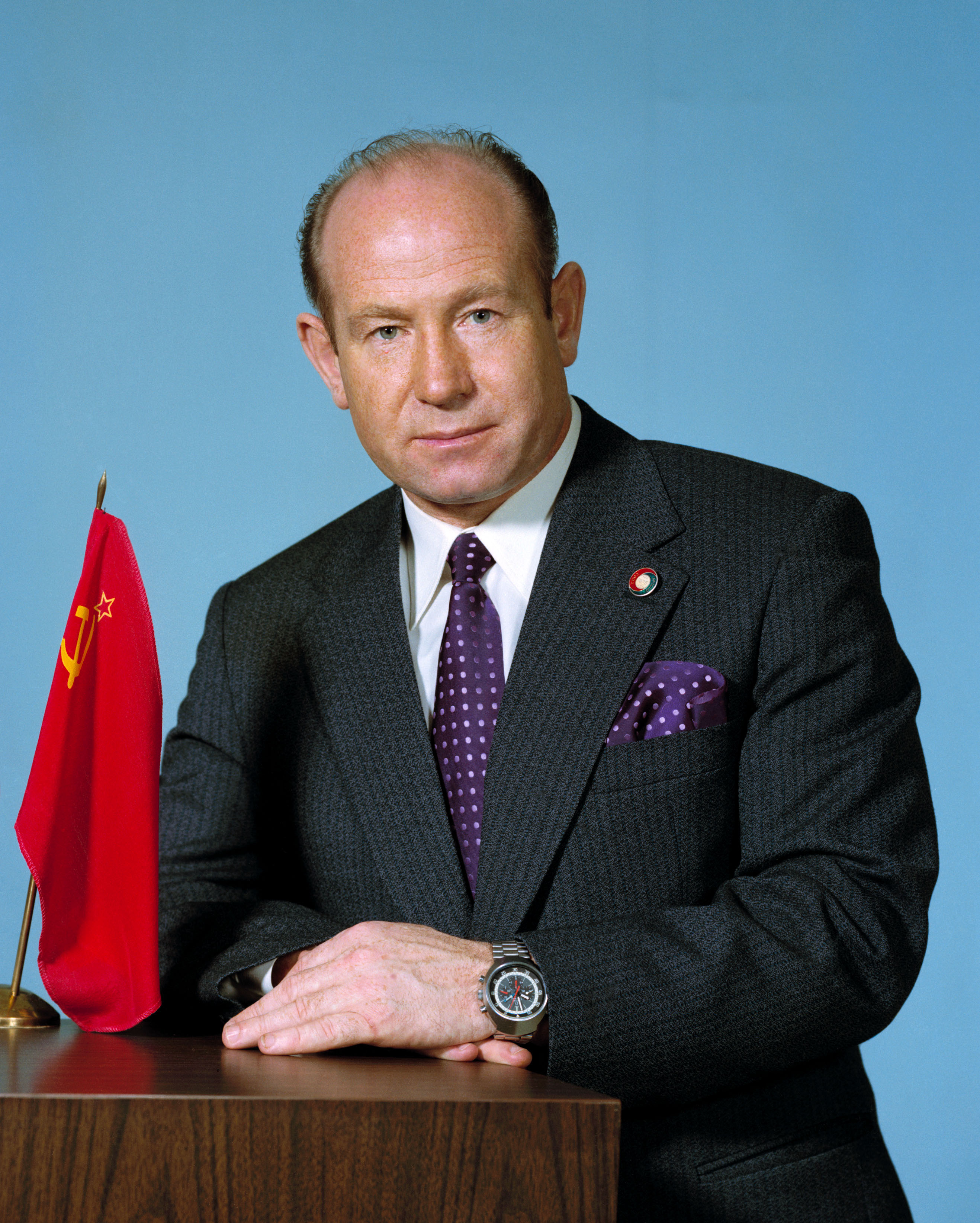 S74-20824 (April 1974) --- Cosmonaut Aleksey A. Leonov